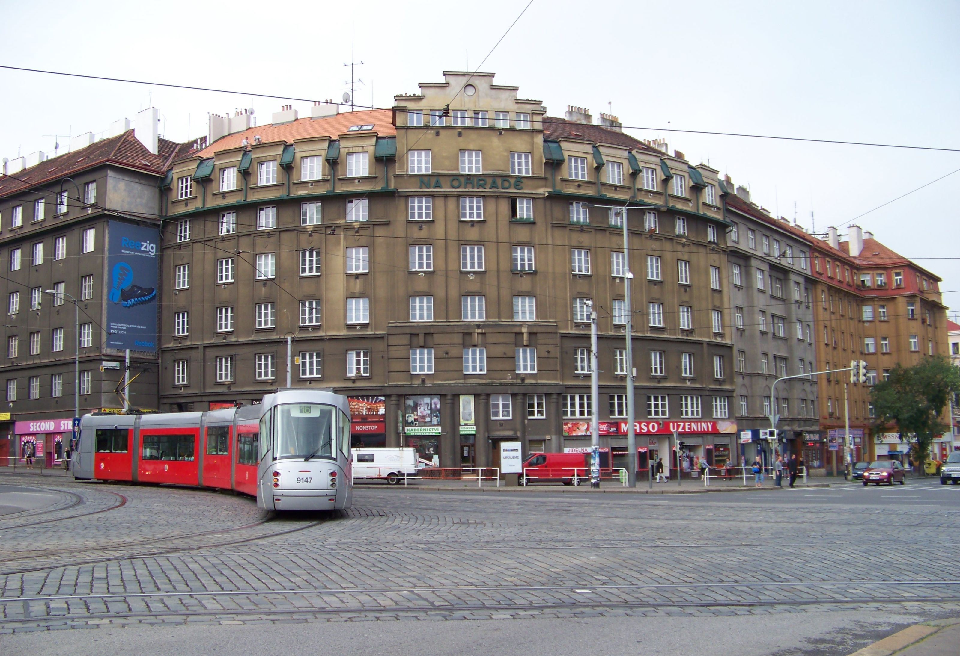 Prague-Žižkov, the Czech Republic. Jana Želivského and Koněvova street, Na Ohradě house. - Google Maps - Google Earth